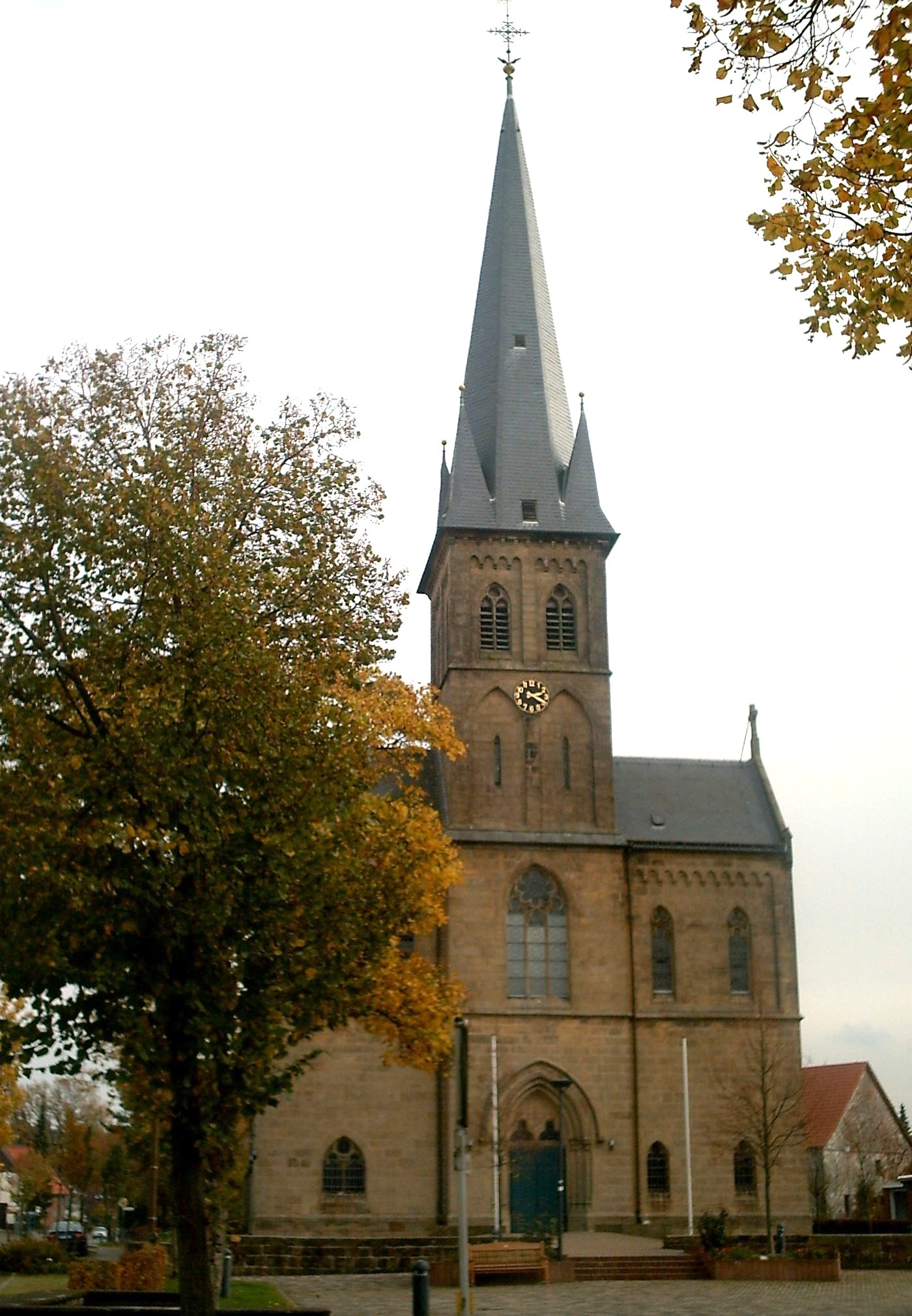 Catholic church in Altenbeken-Schwaney / Germany This is a photograph of an architectural monument.